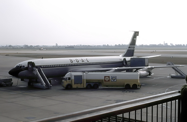 BOAC Boeing 707 at London Heathrow Airport, England.